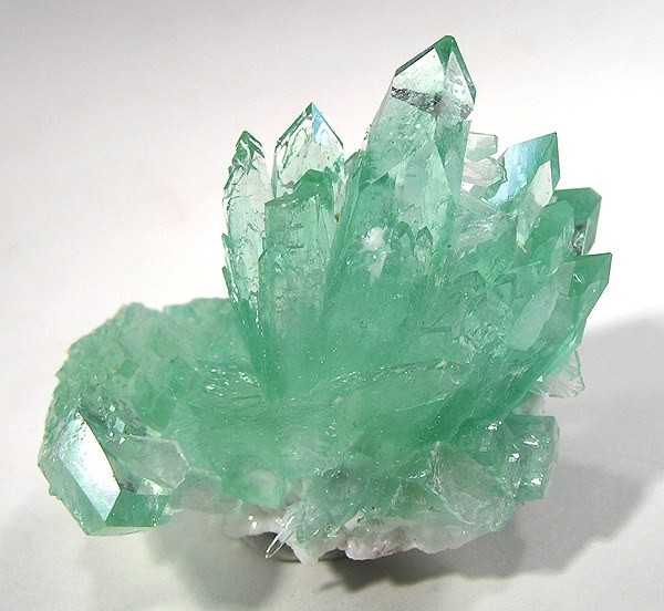 Apophyllite Locality: Pashan, Pune District (Poonah District), Maharashtra, India (Locality at ) A spray of SUPERB, GEMMY, very lustrous crystals of apophyllite - a cut WAY above the standard stuff you see! 3.9 x 3.4 x 2.5cm